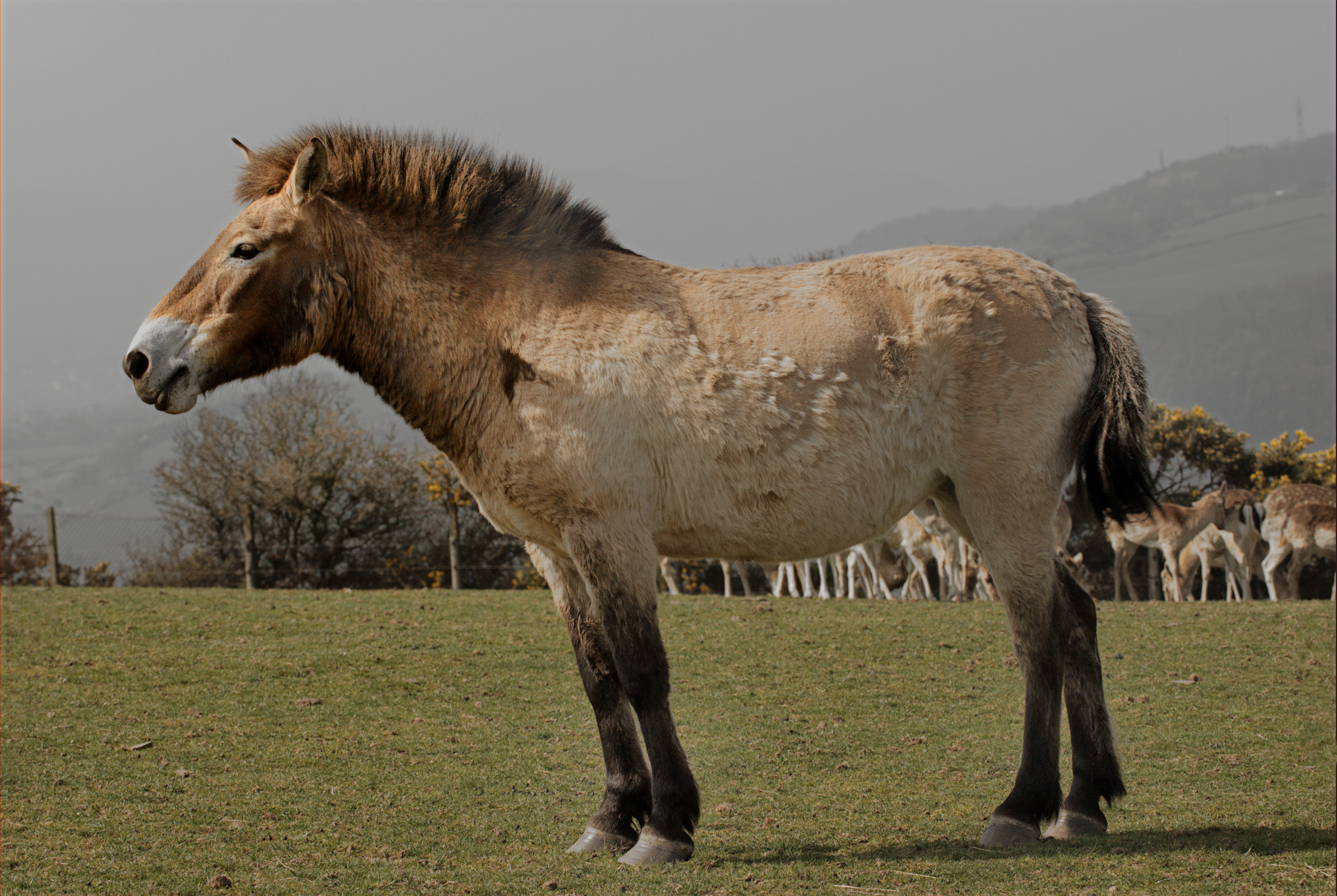 North Wales. Colwyn Bay Mountain Zoo. In the beginning there was the Przewalski Wild Horse and from this came the modern horse as we know it. The Przewalski is extinct in the wild being preserved only by zoo programmes. As an experiment, three have been put to roam parts of Snowdonia since they crop less closely than sheep and so give the trees that once were so abundant in the Snowdonia landscape (and now are almost a rarity) a chance to grow.